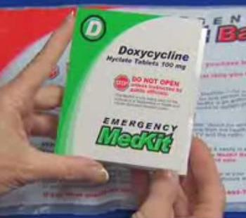 Mass Antibiotic Dispensing: Alternate Methods (video) Upon successful completion of the program, participants will be able to: - Describe five mass antibiotic dispensing modalities - Define the push versus pull method of mass antibiotic dispensing - List two push modes of mass antibiotic dispensing - Identify two issues associated with dispensing antibiotics to large employers State and local SNS planners have suggested that it may not be possible to provide prophylaxis to the entire community in 48 hours using only the traditional POD model. Alternate methods of dispensing, such as using drive-through dispensing or pushing medications to businesses, nursing homes, or assisted living facilities, may be necessary in addition to PODs. This live interactive program will describe several alternate methods of dispensing that planners can consider as they develop their comprehensive dispensing plans. Planners from state and local public health agencies will discuss the alternate dispensing methods they have devised and exercised in their communities. Panelists also will identify the issues and opportunities associated with pushing medication to large employers in the community or delivering medication to sheltered-in populations, such as those in nursing care or assisted living facilities. cropped from the PD image, PHIL ID number 9336 (a screenshot of a Windows Media movie file, removed the copyrighted Windows software portion to show only the PD shot of the drug box).